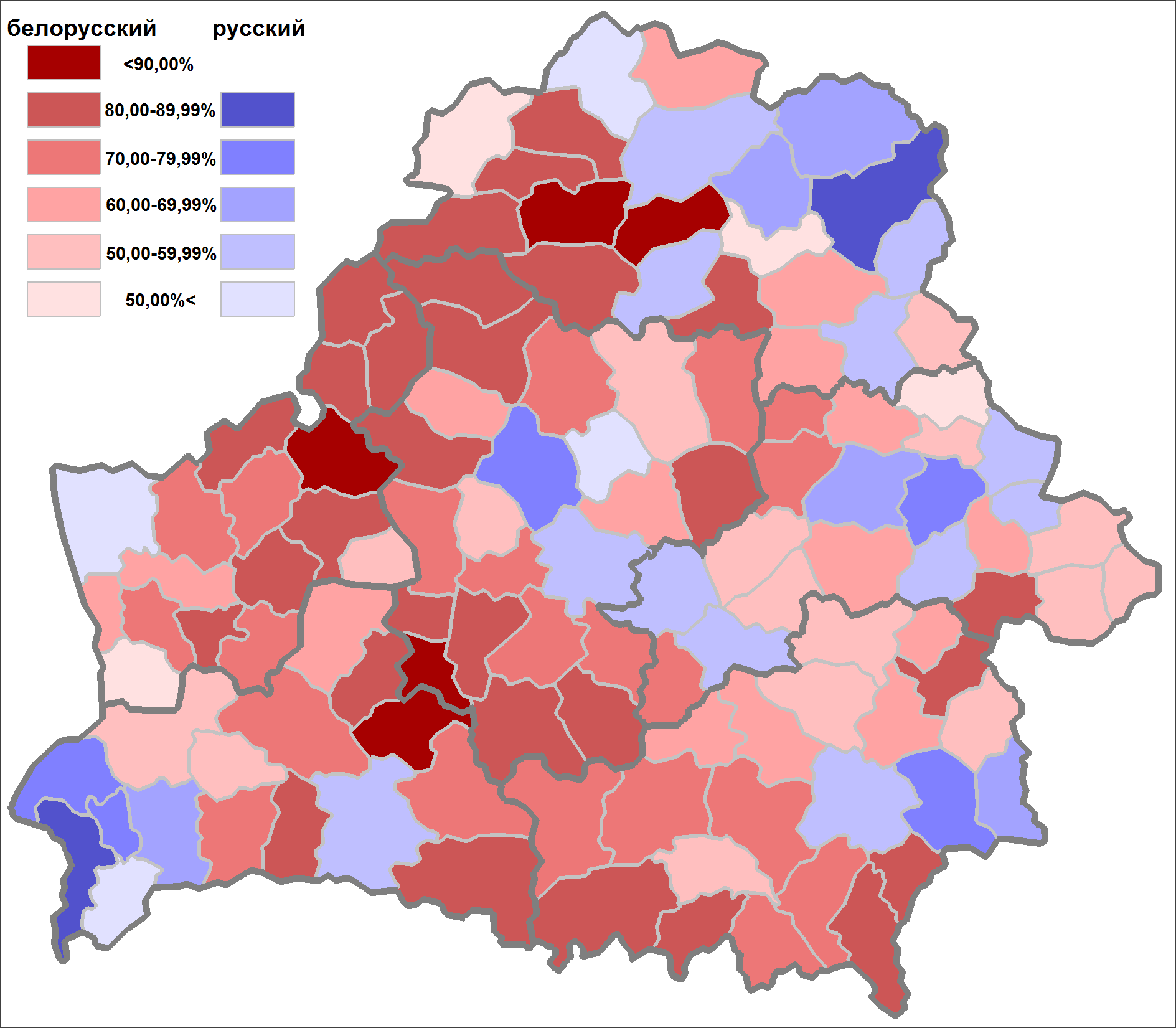 Belarus National Census 2009 languages spoken at home share for rural population: Belarusian (red) and Russian (blue)